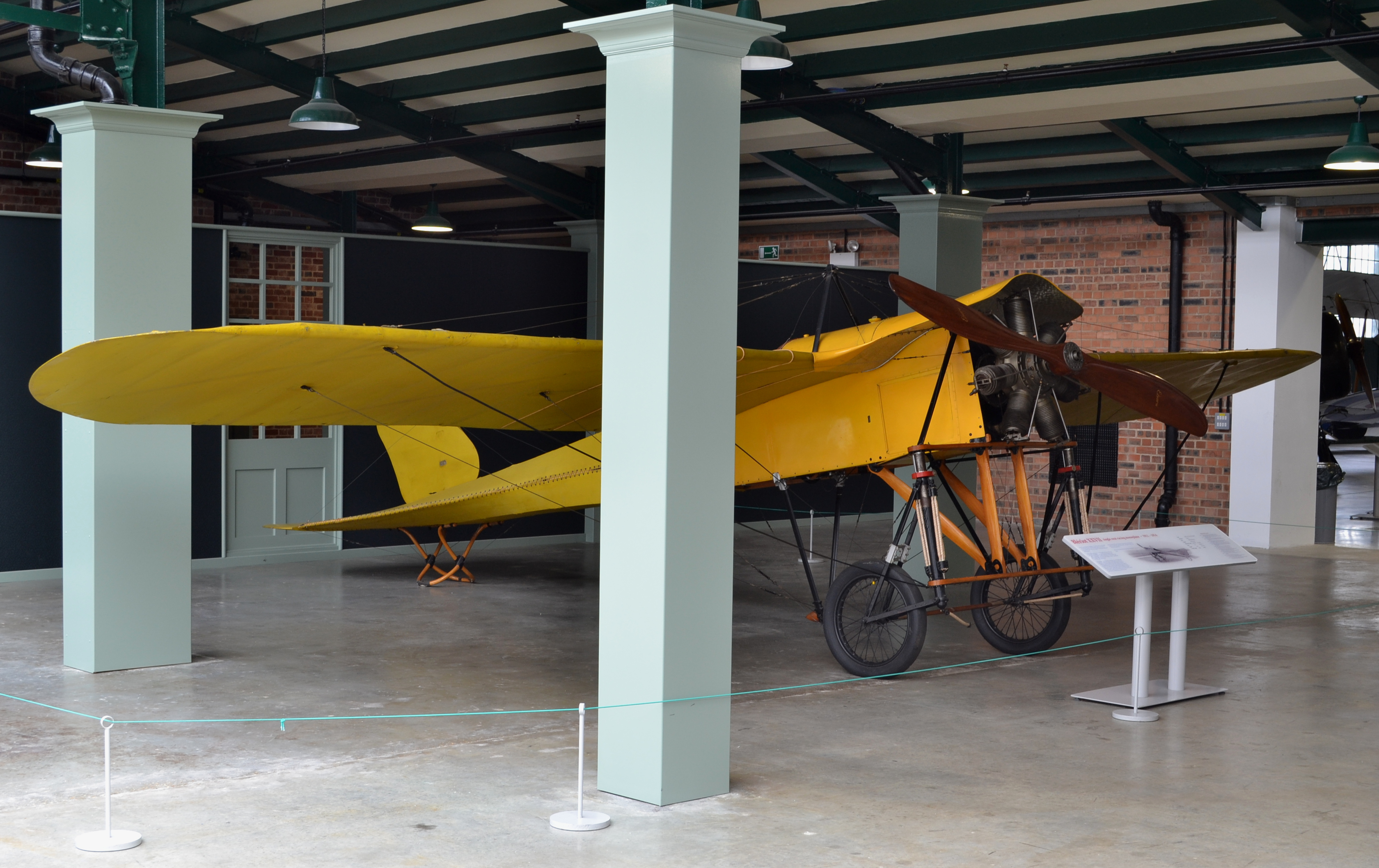 Blériot XXVII on display at the RAF Museum Hendon.